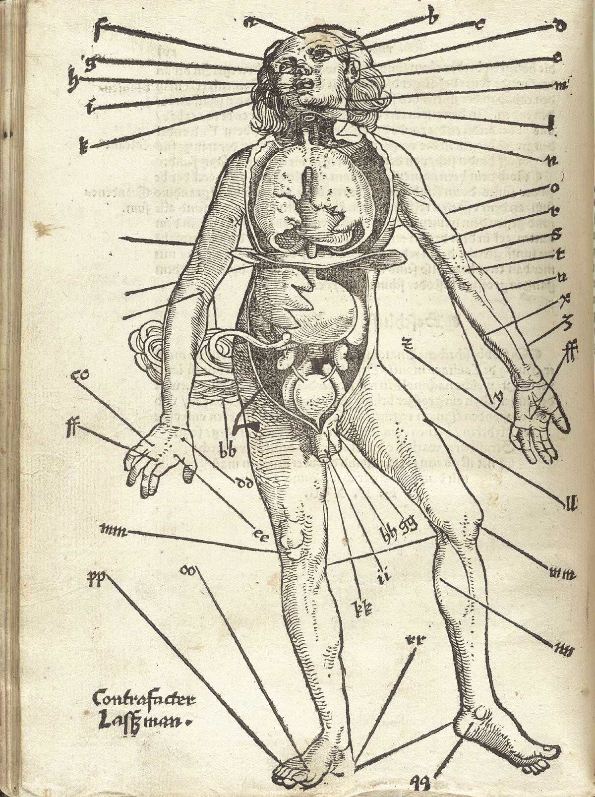 Hans von Gersdorff (ca. 1455 - 1529): Feldtbůch der Wundartzney (Strassburg, 1519) Aderlasspunkte. (Field book of surgery, Strassbourg 1519. Points for blood-letting). Uploader=Kuebi 08:20, 5 April 2007 (UTC)